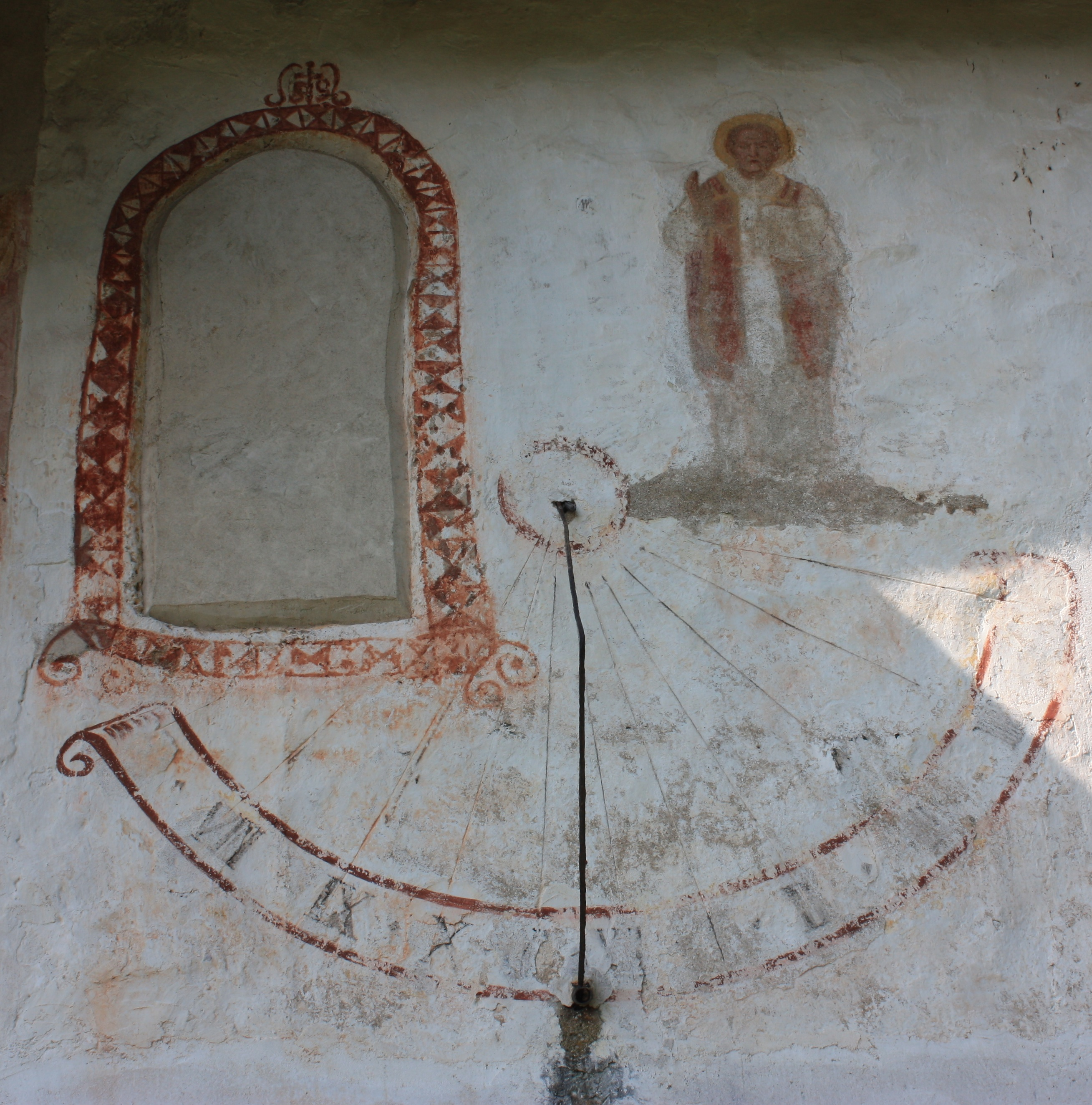 Subsidiary church "Saint Sebastian" - Sundial Locality: Aich/Dob Community:Bleiburg